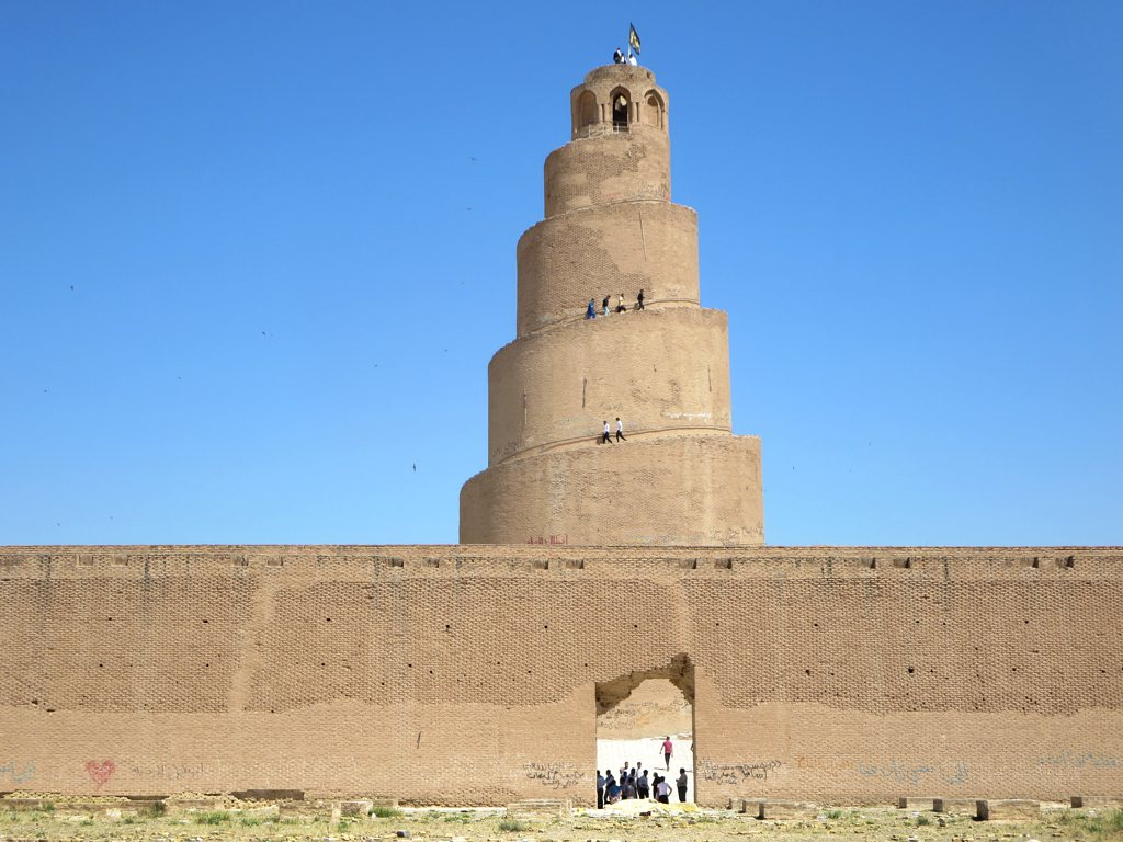 The spiral Malwiya Minaret of the 9th century Al-Jami Mosque at Samarra, northwest of Baghdad, is emblematic of Iraq. The Mongols destroyed the mosque in 1278 but left the minaret standing.